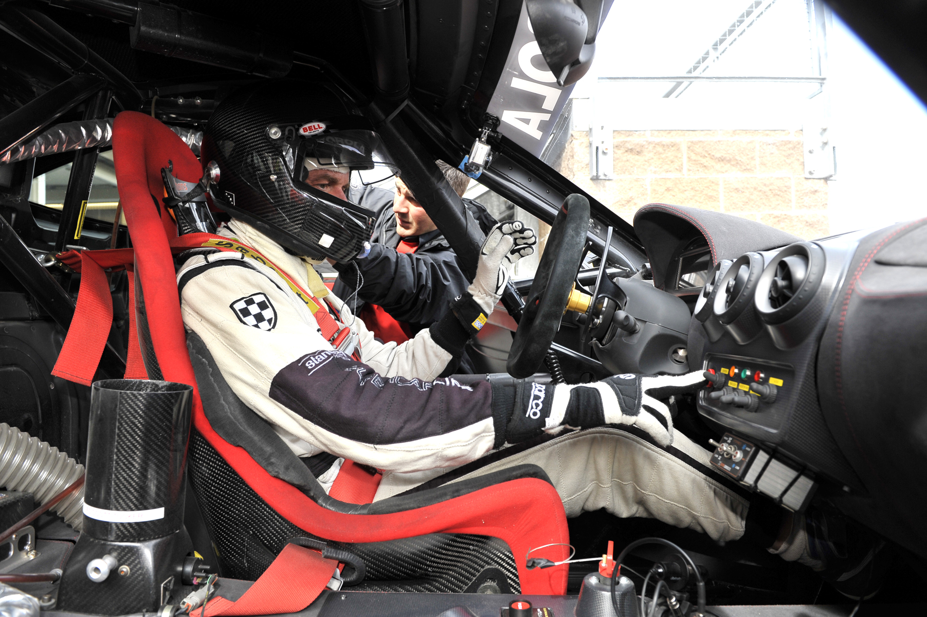 Scott Tucker in Ferrari F430 - Miller Motorsports Park April 10, 2010 – Ferrari Challenge Event – Tooele, UT – Team Photo